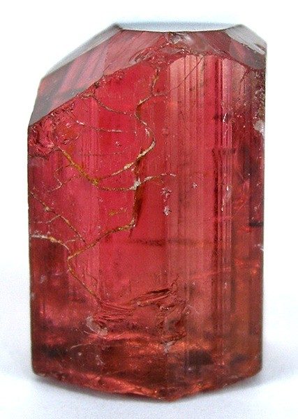 Tourmaline (Var.: Rubellite) Locality: Ogbomosho (Ogbomoso), Oyo State, Nigeria (Locality at ) Size: 1.8 x 1.2 x 1.1 cm. Although this is only a thumbnail, the incredible transparency and superb cranberry color, makes this specimen, competition quality. From the collection of James E. Moresby White. Ex. Carnegie Museum Collection.